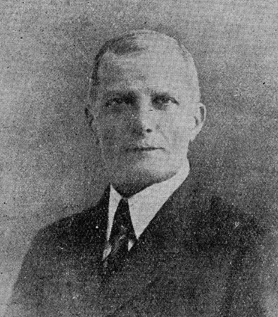 Ioannis Zepos (1870-1946): Greek lawyer